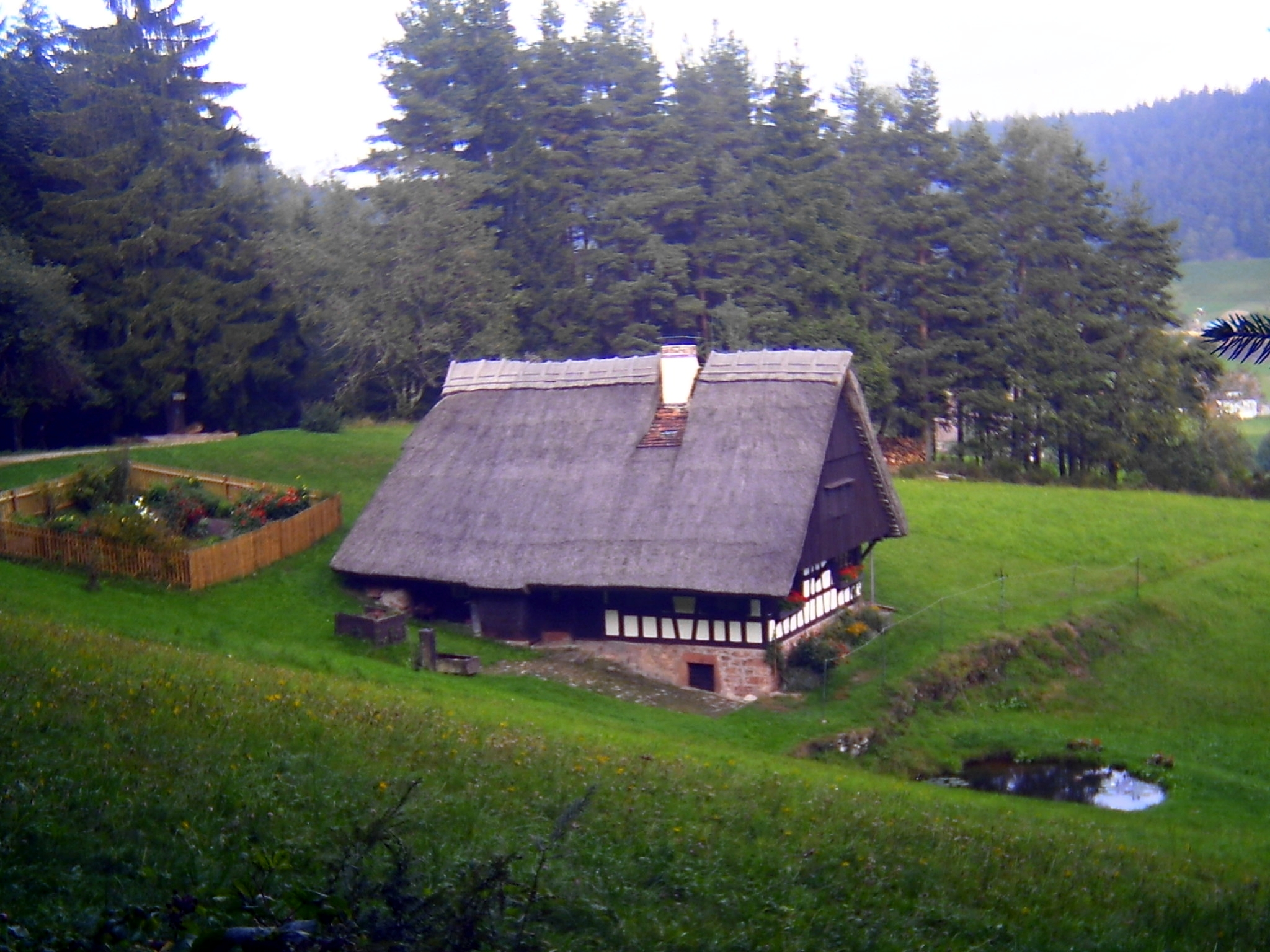 Old House, black forest style called Kapfhaeusle near Lauterbach